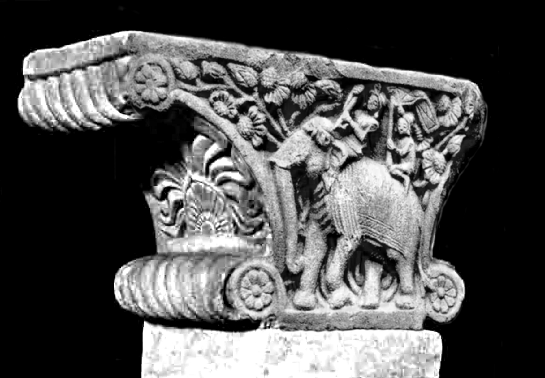 Sarnath capital elephant side (reconstruction)